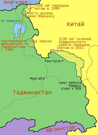 Changes in the boundary between China and Tajikistan